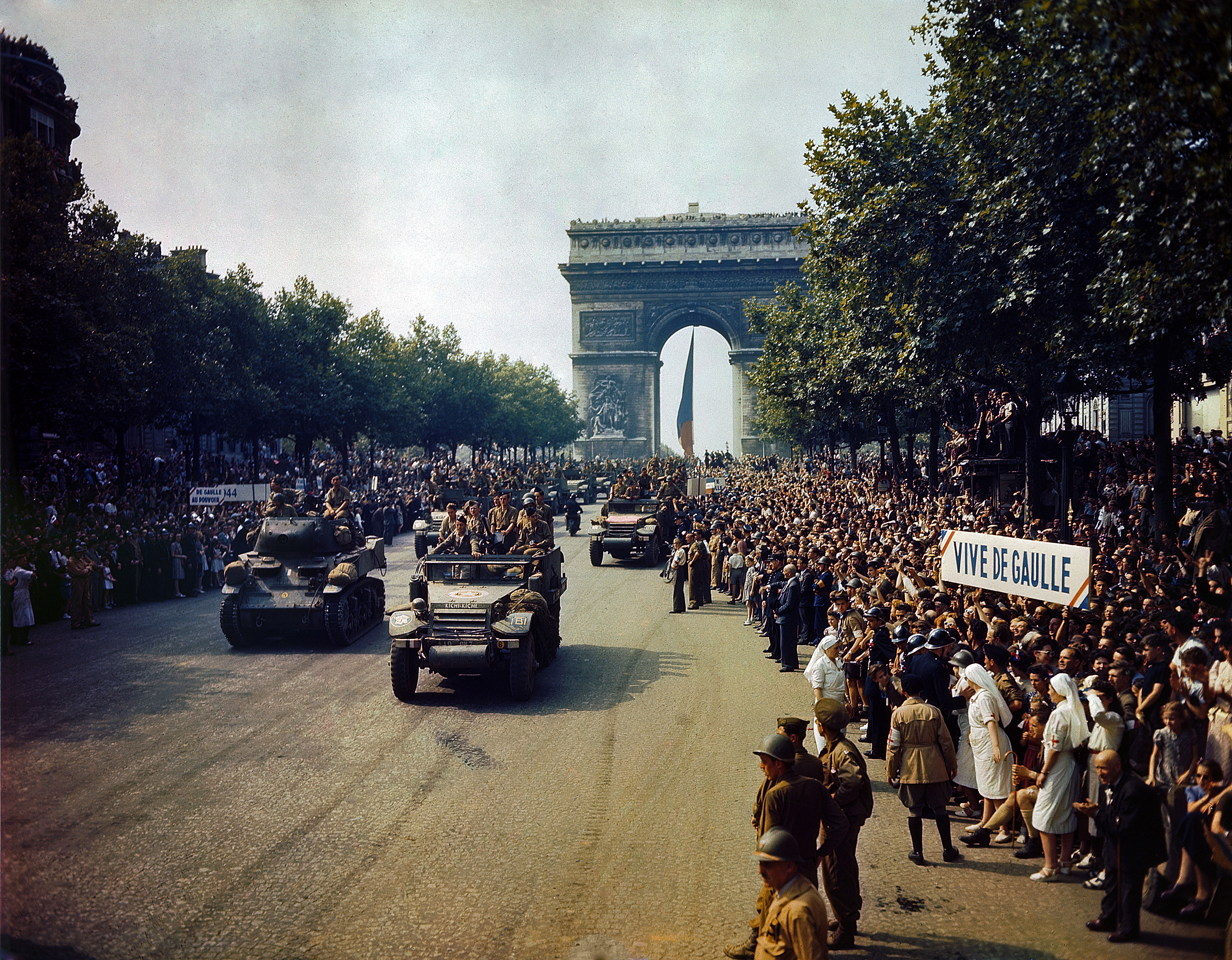 Downscaled the image to make it look sharper, removed dust, scratches and artifacts, darkened the sky slightly and sharpened it. Original description: Libération de Paris Title: Crowds of French patriots line the Champs Elysees to view Free French tanks and half tracks of General Leclerc's 2nd Armored Division passes along the Arc du Triomphe, after Paris was liberated on August 26, 1944 Repository: Library of Congress Prints and Photographs Division Washington, D.C. 20540 USA Digital ID: (digital file from original transparency) fsac 1a55001